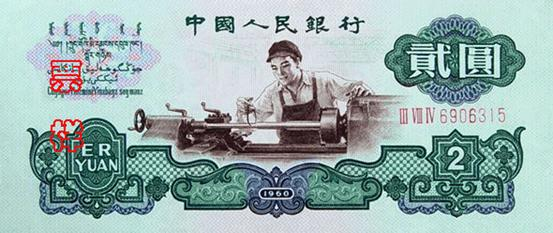 Third series of the renminbi 2yuan(sample)